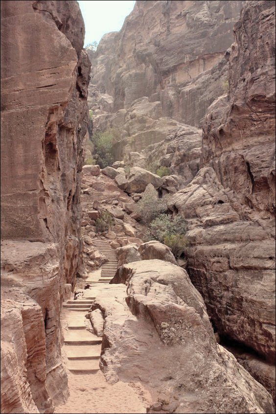 Petra. The wadi Araba.